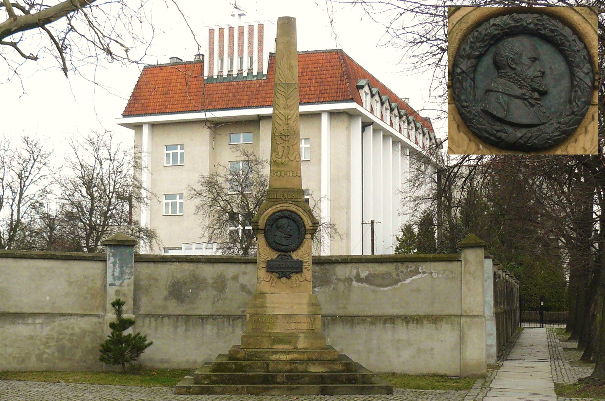 Jan Kochanowski Monument, Poznan, Ostrow Tumski Island.